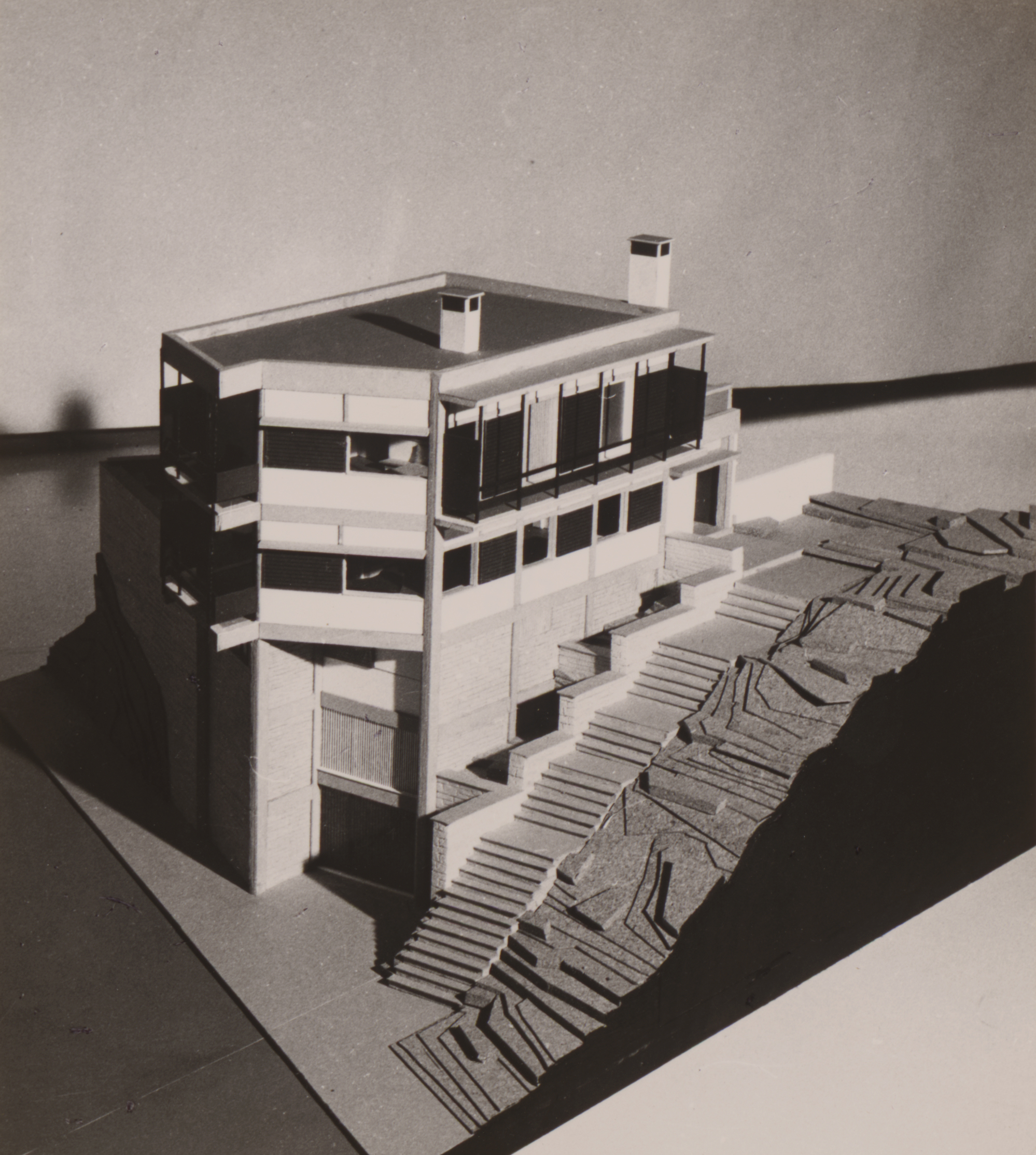 Photo of a model of a one-family house in athens